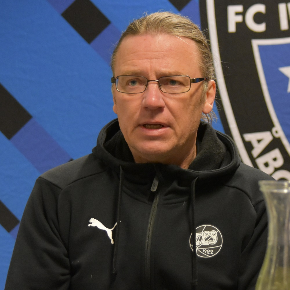 Football Coach Mika Laurikainen (TPS)